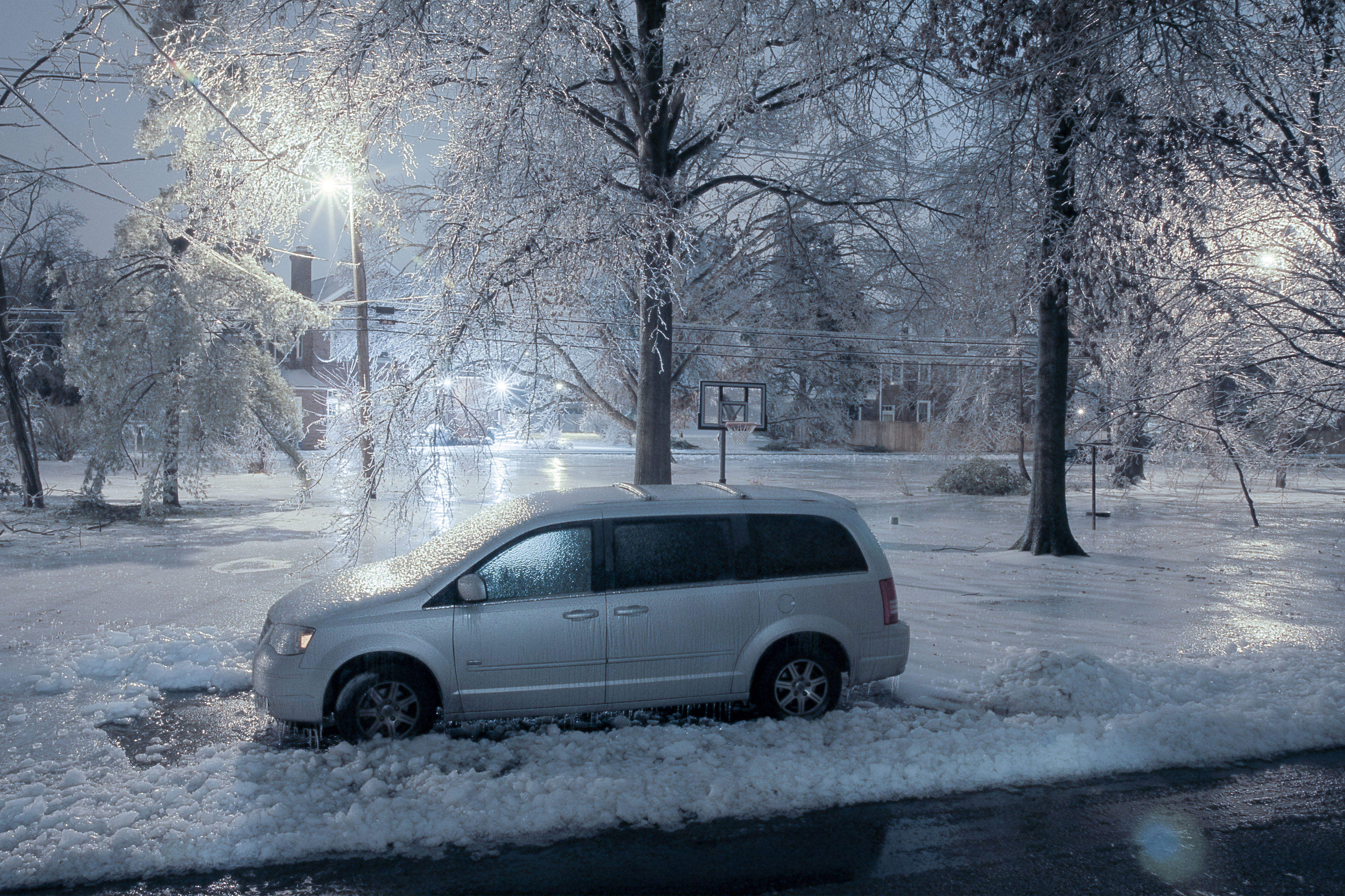 Ice laden tree branches are coming down all around me. My wife's mini-van is encased in ice. The Commanding General canceled work for us tomorrow. I suppose we will stay home and watch TV until the cable line snaps or the electrical line snaps or both.